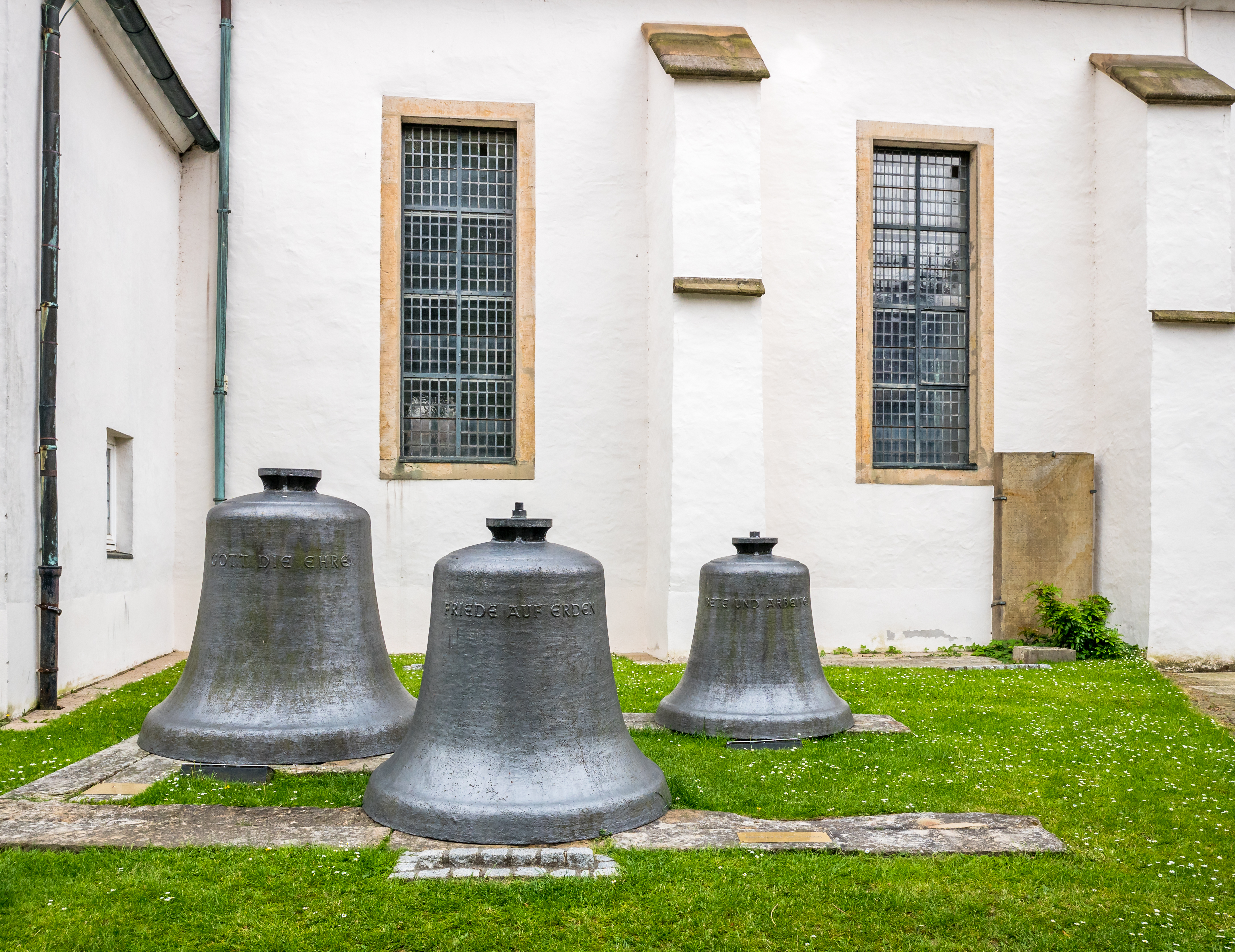 St. Nicholas church in Bad Essen. Bells in front of the church. Osnabrück Land, Lower Saxony, Germany